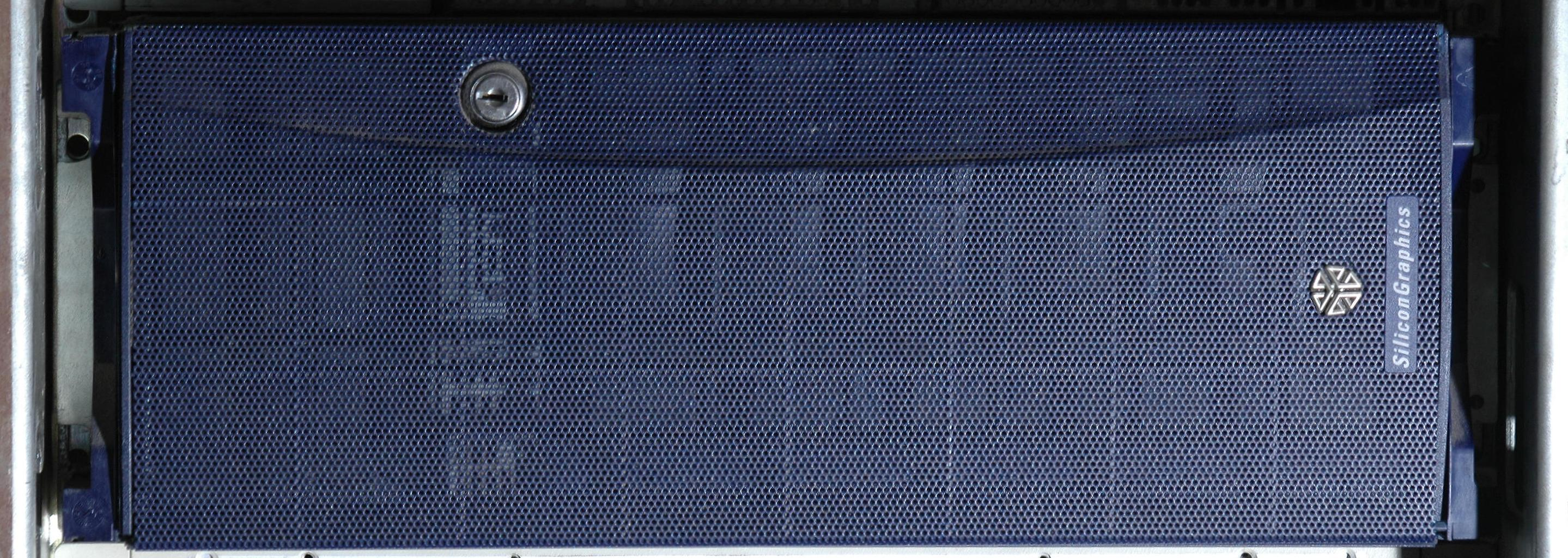 Front view of a rack-mounted SGI Origin-200.